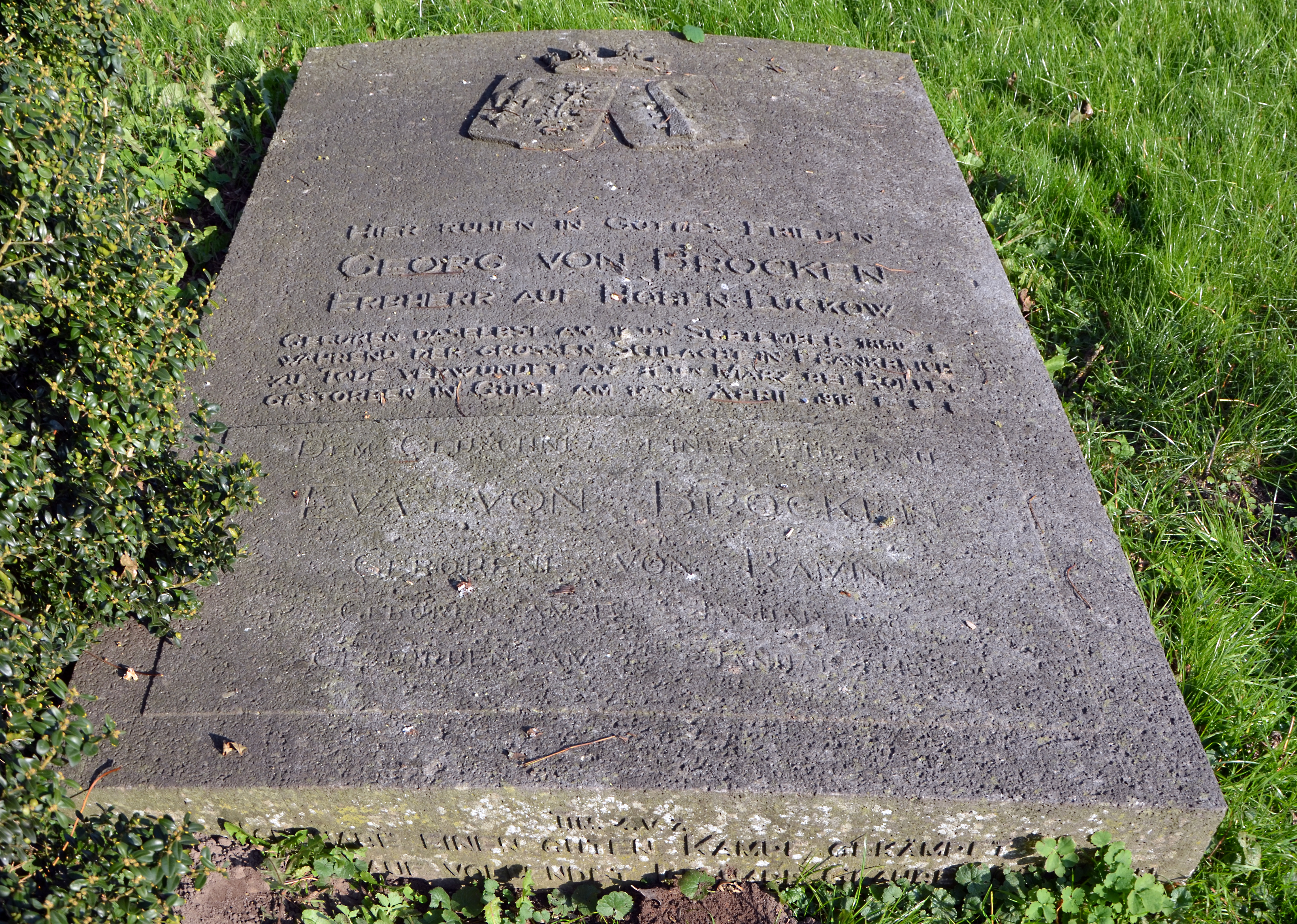 Gravestone Georg and Eva von Brocken in Hohen Luckow